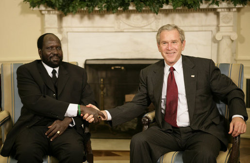 President George W. Bush welcomes Salva Kiir, the First Vice President of the Government of National Unity of Sudan and the President of Southern Sudan, during a meeting in the Oval Office Thursday, July 20, 2006.